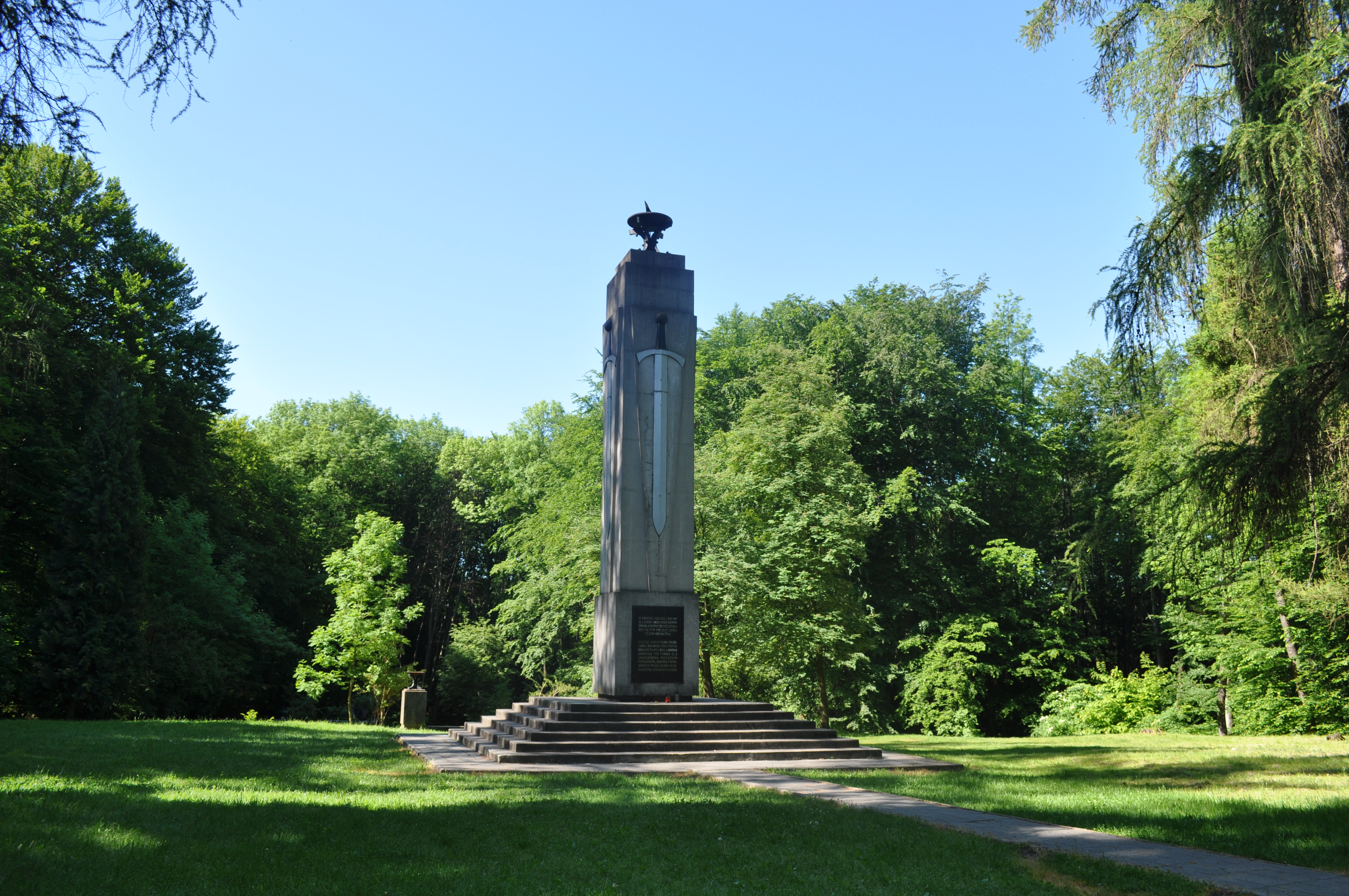 Buczyna Forest at Zbylitowska Gora. Poland. World War II cementery of Jews and Poles, German victims.